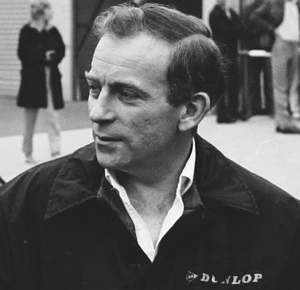 The picture of Peter Arundell was taken in August 1968 at Nürburgring on the occasion of the German Formula 1 Grand Prix race there.